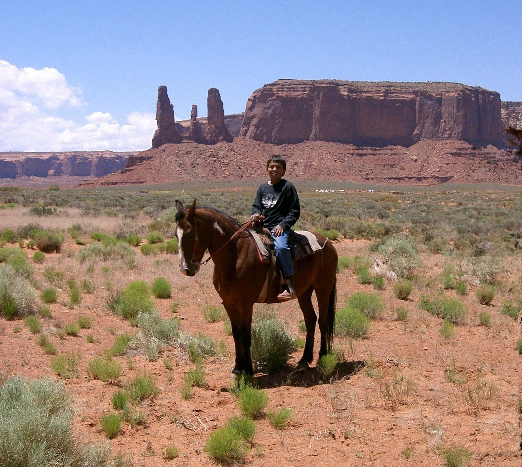 Navajo young boy on horse - working as guide for tourists - Monument Valley - Arizona